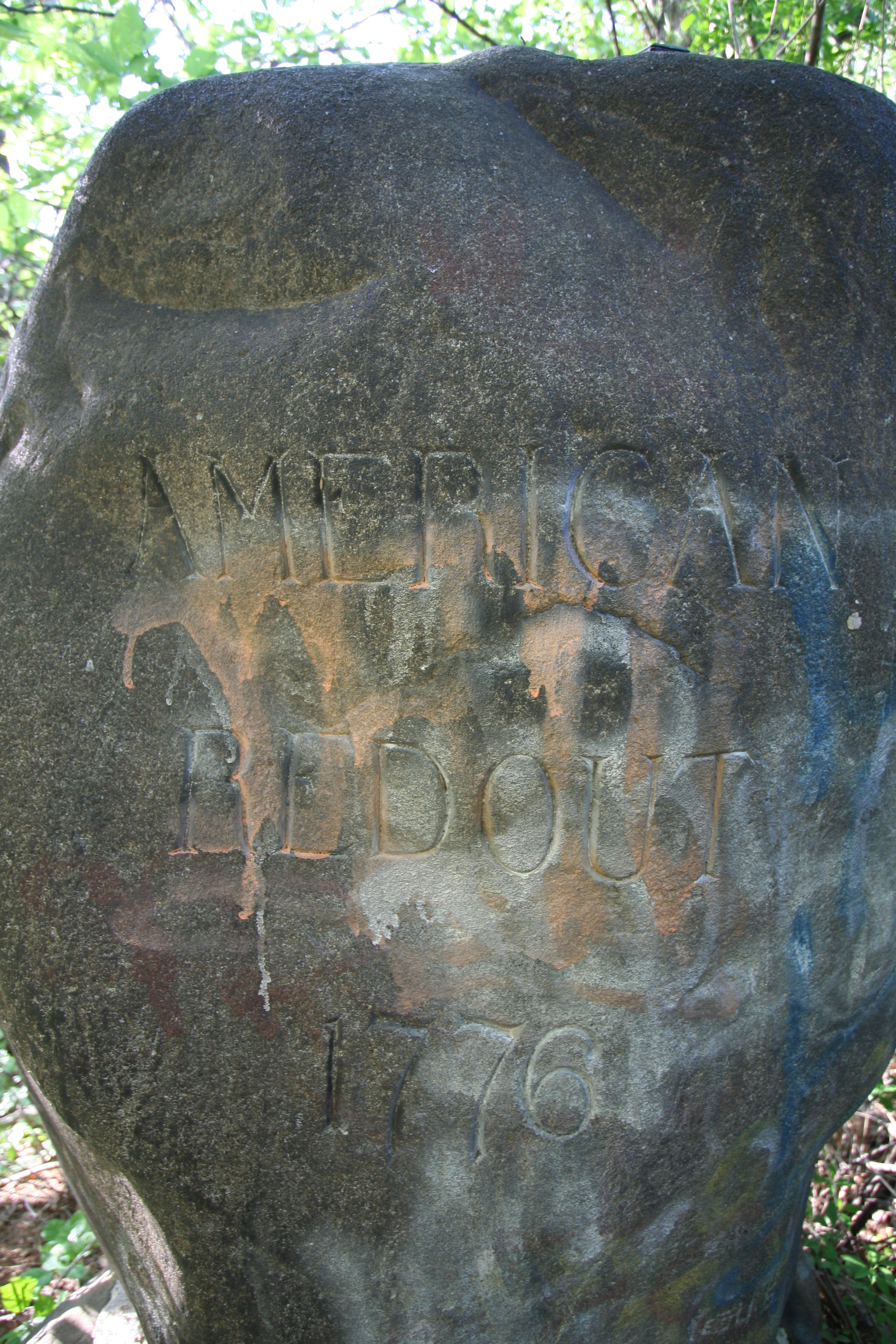 Daughters of the American Revolution (D.A.R) monument to the Battle of Fort Washington, located under the approach deck of the George Washington Bridge, New York City, NY, USA. Erected in 1910. Marred by graffiti. Photo by Jim Harper, May 20, 2006.